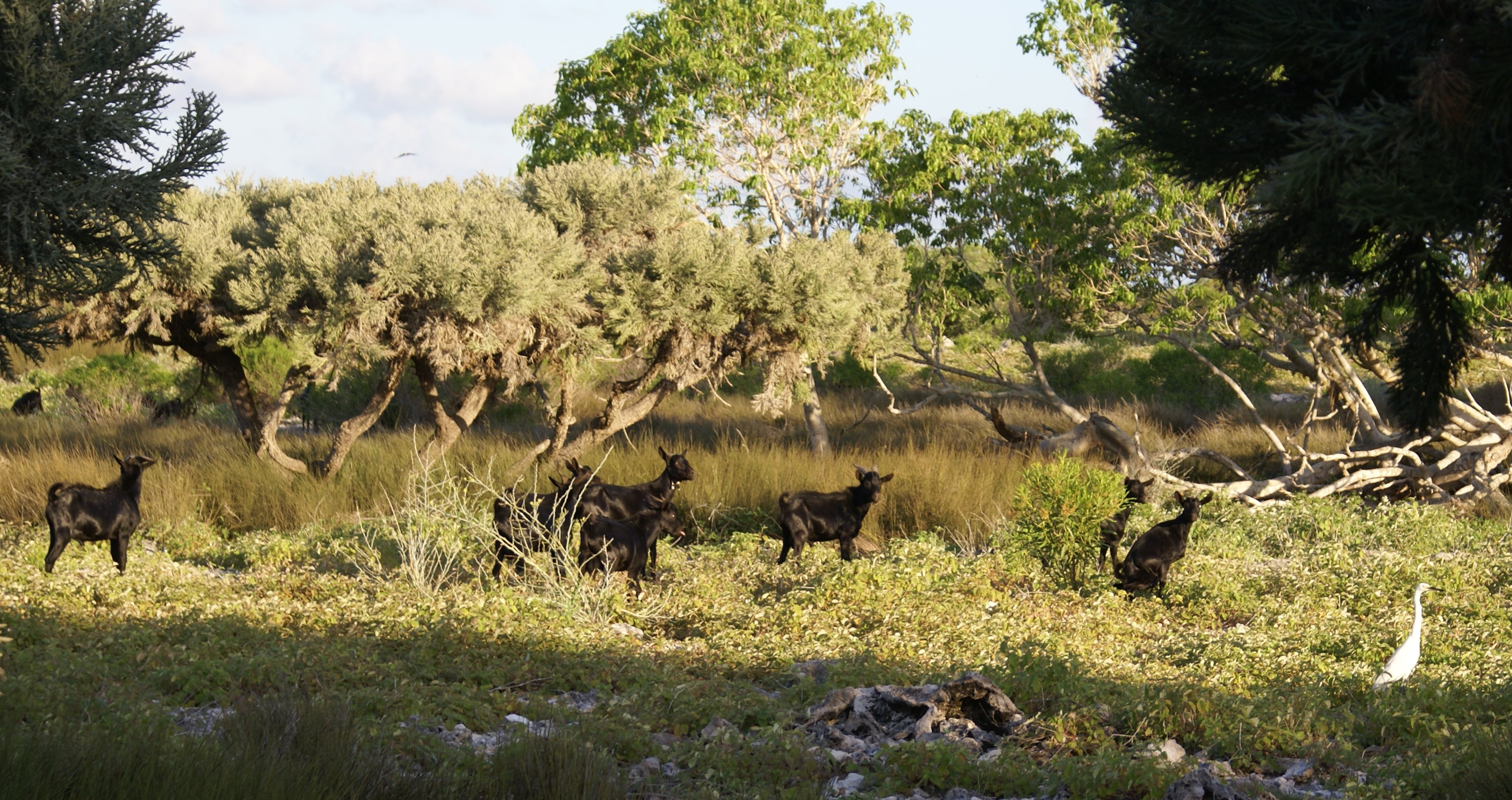 Feral goats on Europa Island